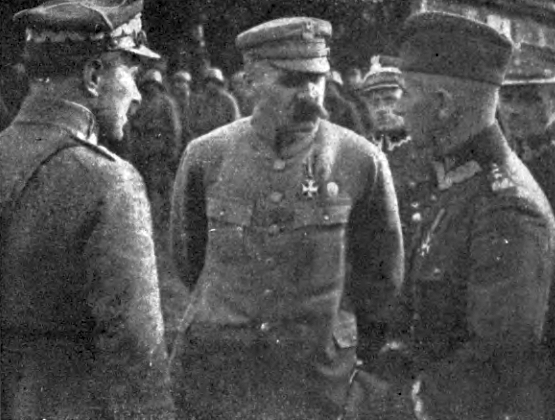 Józef Piłsudski and Edward Rydz-Smigły before battle of the Niemen River.